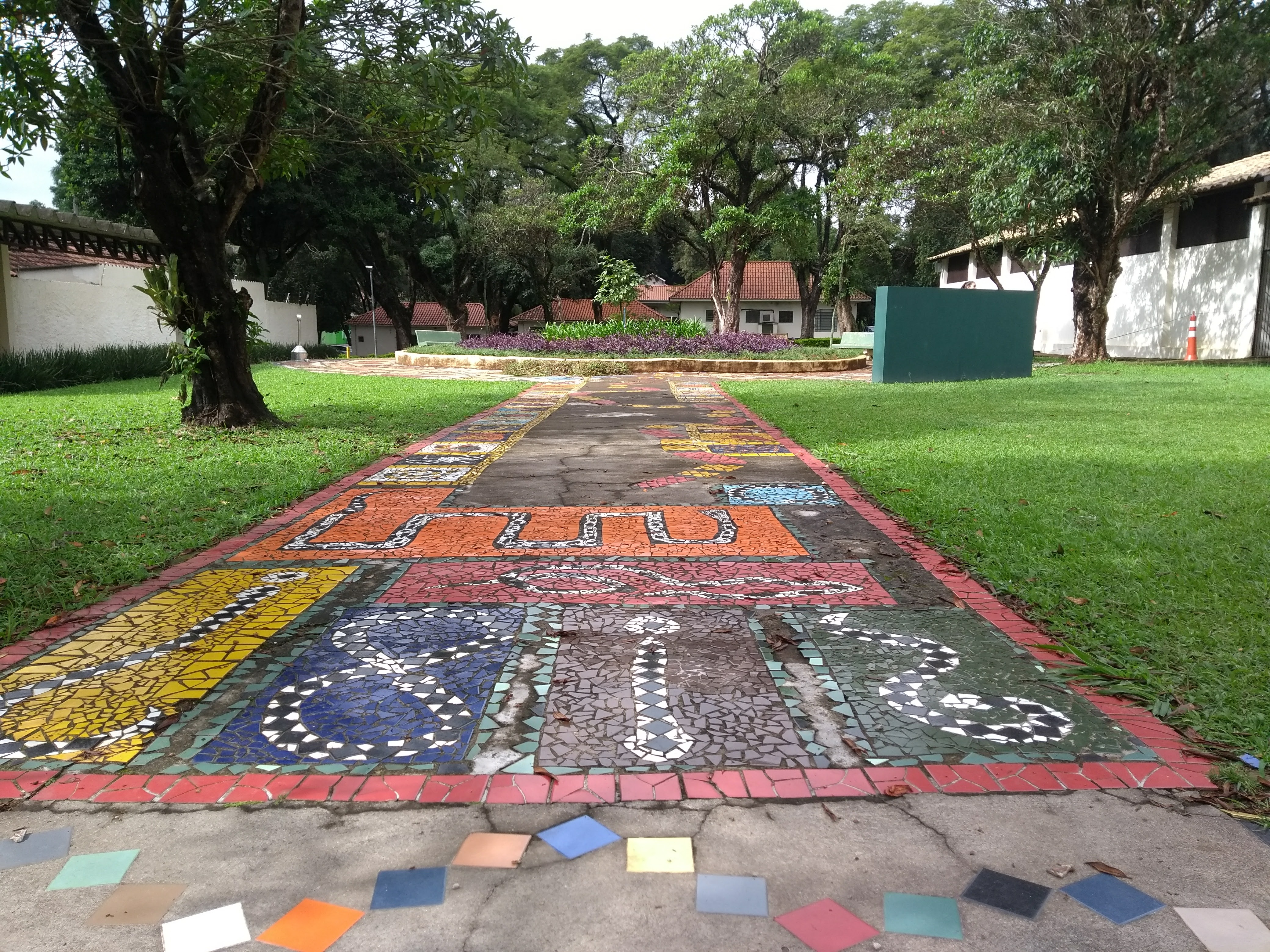 Jardim do museu.